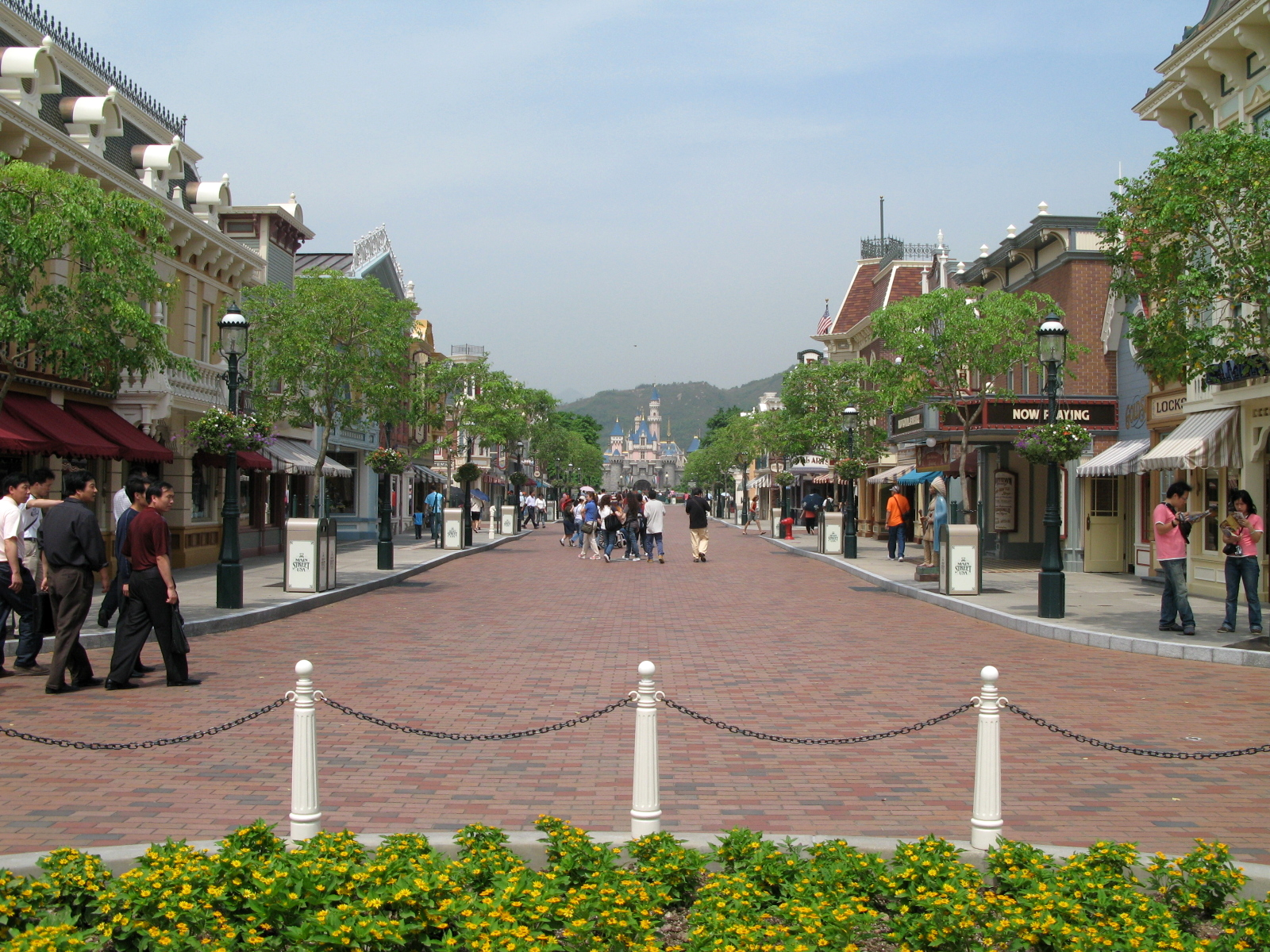 Hong Kong Disneyland Resort Main Street overivew